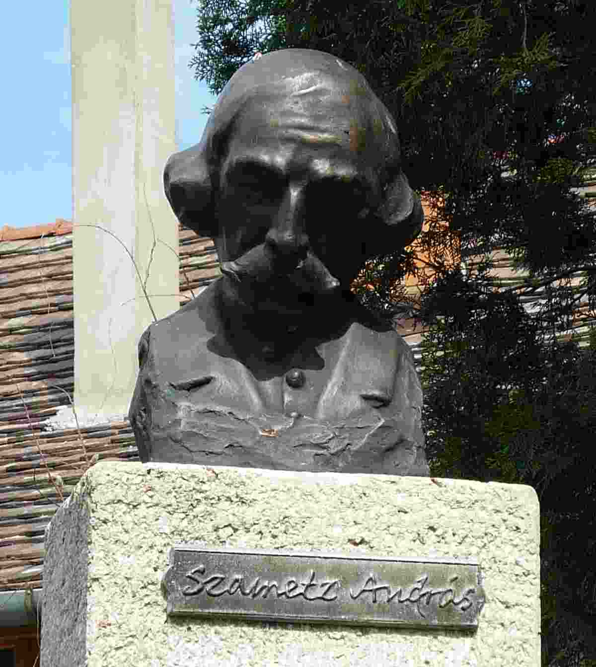 András Szametz bust in Hódmezővásárhely, Klauzál Street.